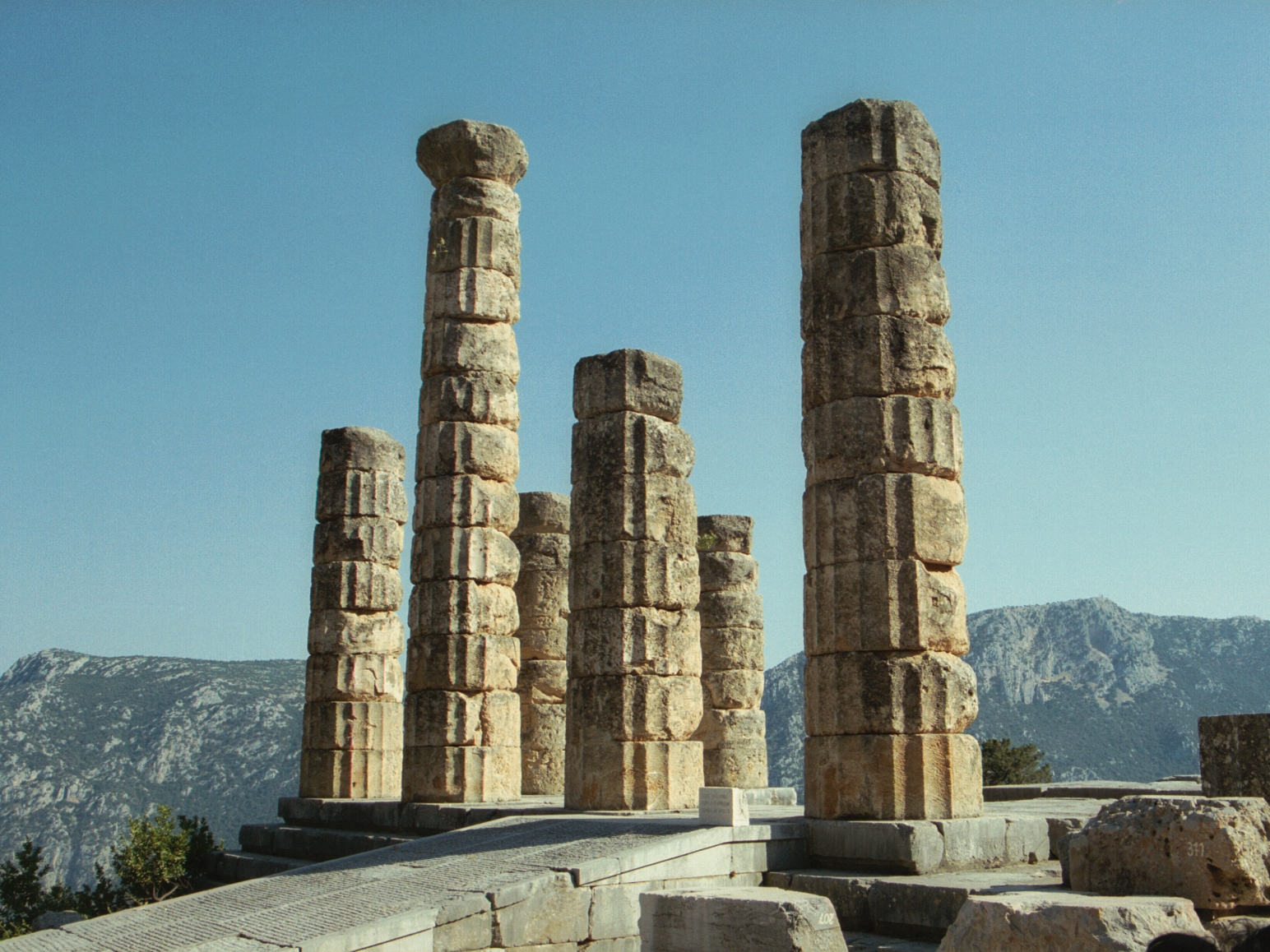 Temple of Apollo at Delphi, east facade.